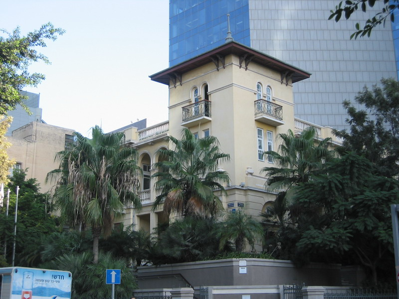 Rothschild Boulevard, Tel Aviv. Ex-embassy of Russia